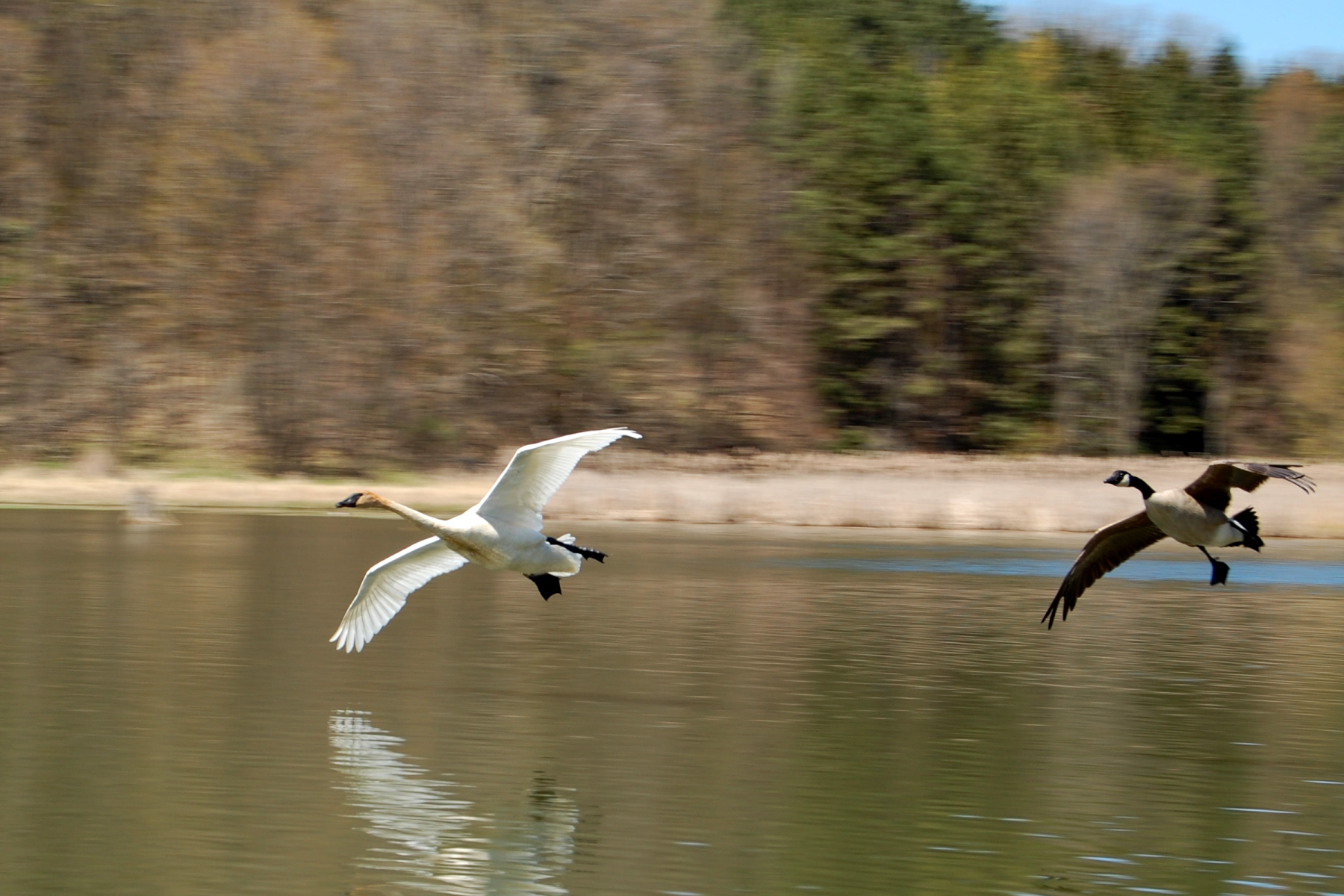 Shot at the Kortright Conservation Centre in Woodbridge.